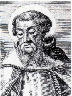 Saint Irenaeus (c. 130-202), bishop of Lugdunum in Gaul (now Lyon, France).